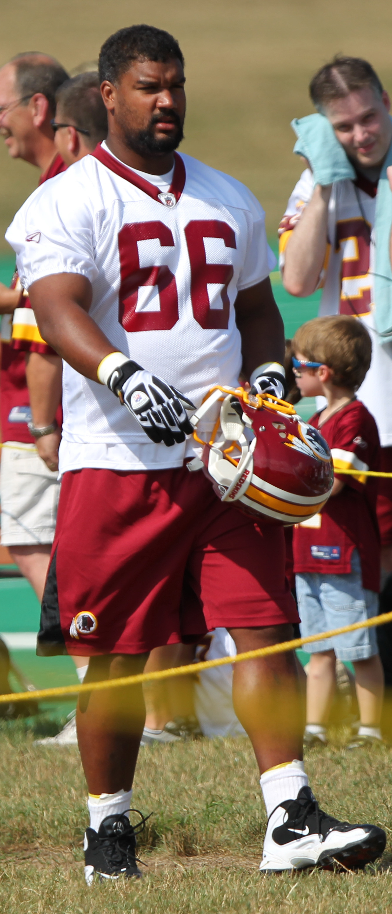 Chris Chester at Washington Redskins Training Camp August 4, 2011